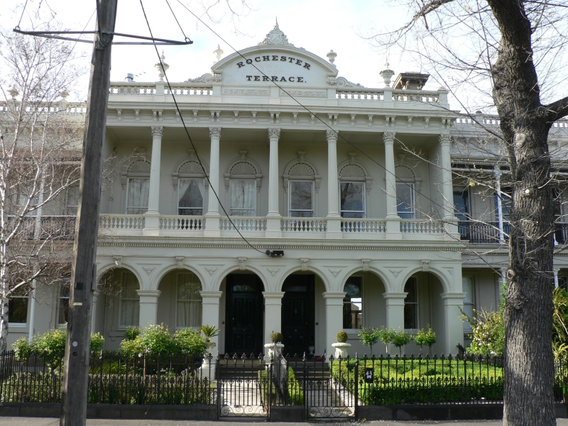 Detail of the main pavilion of Rochester Terrace. Albert Park, Melbourne.